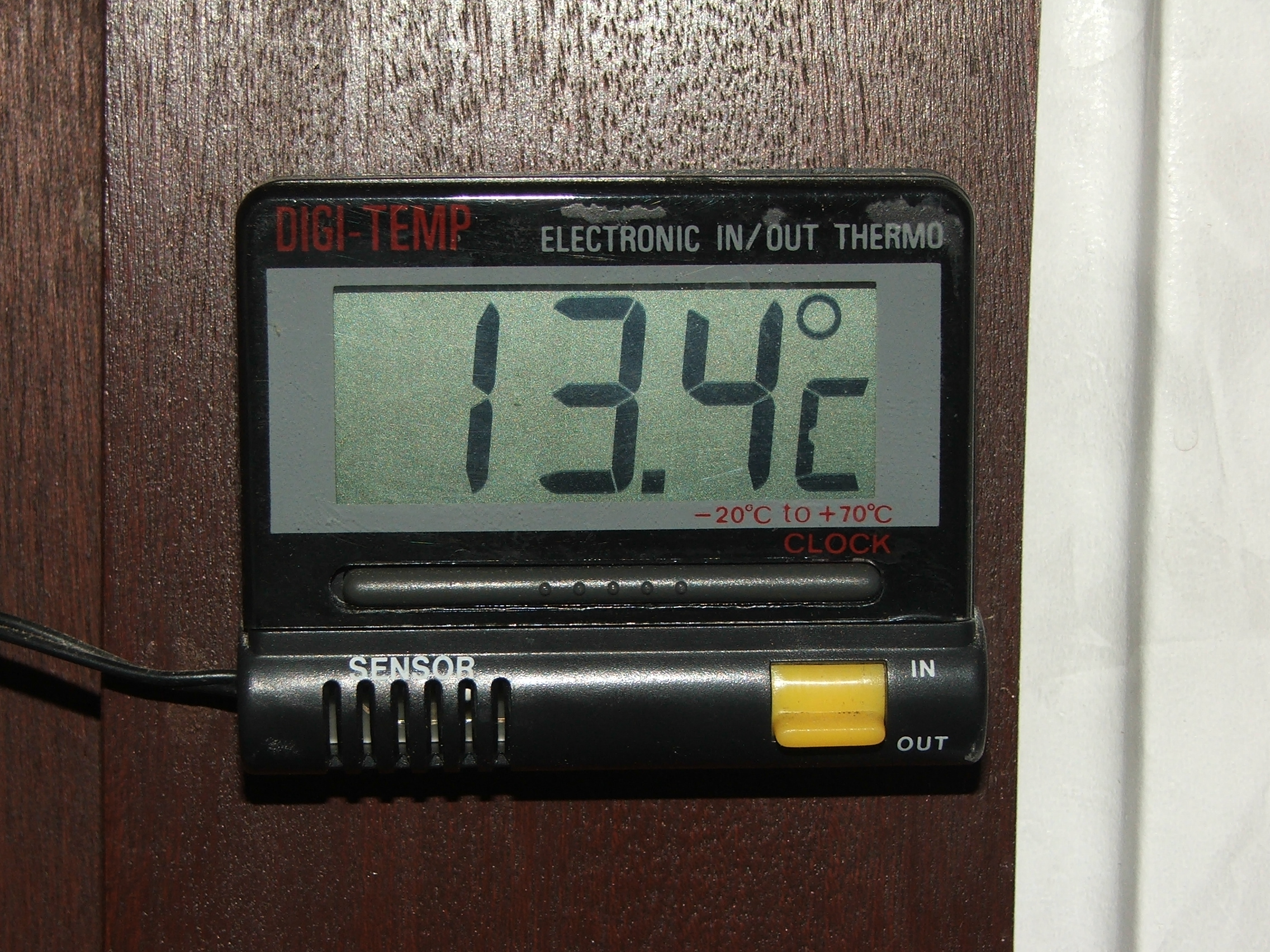 Digital indoor/outdoor thermometer (double sensors) with clock